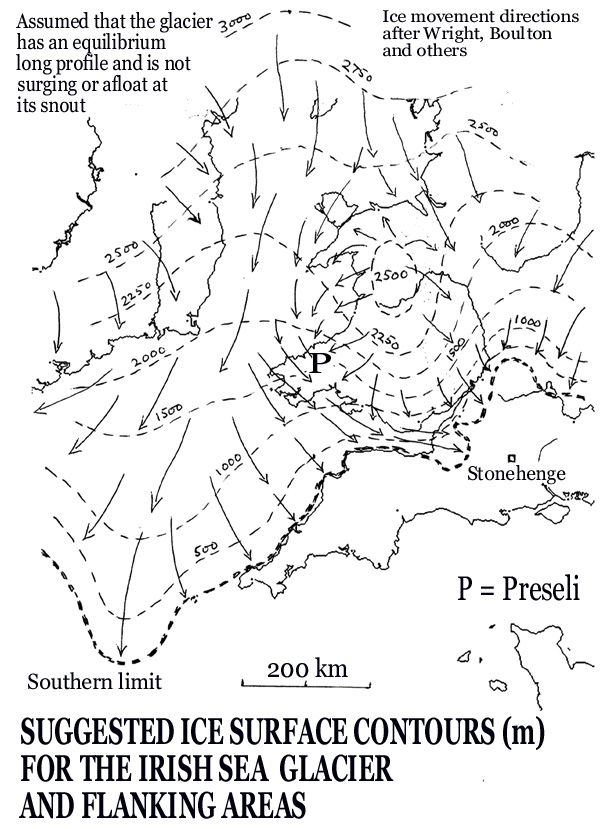 Brian John